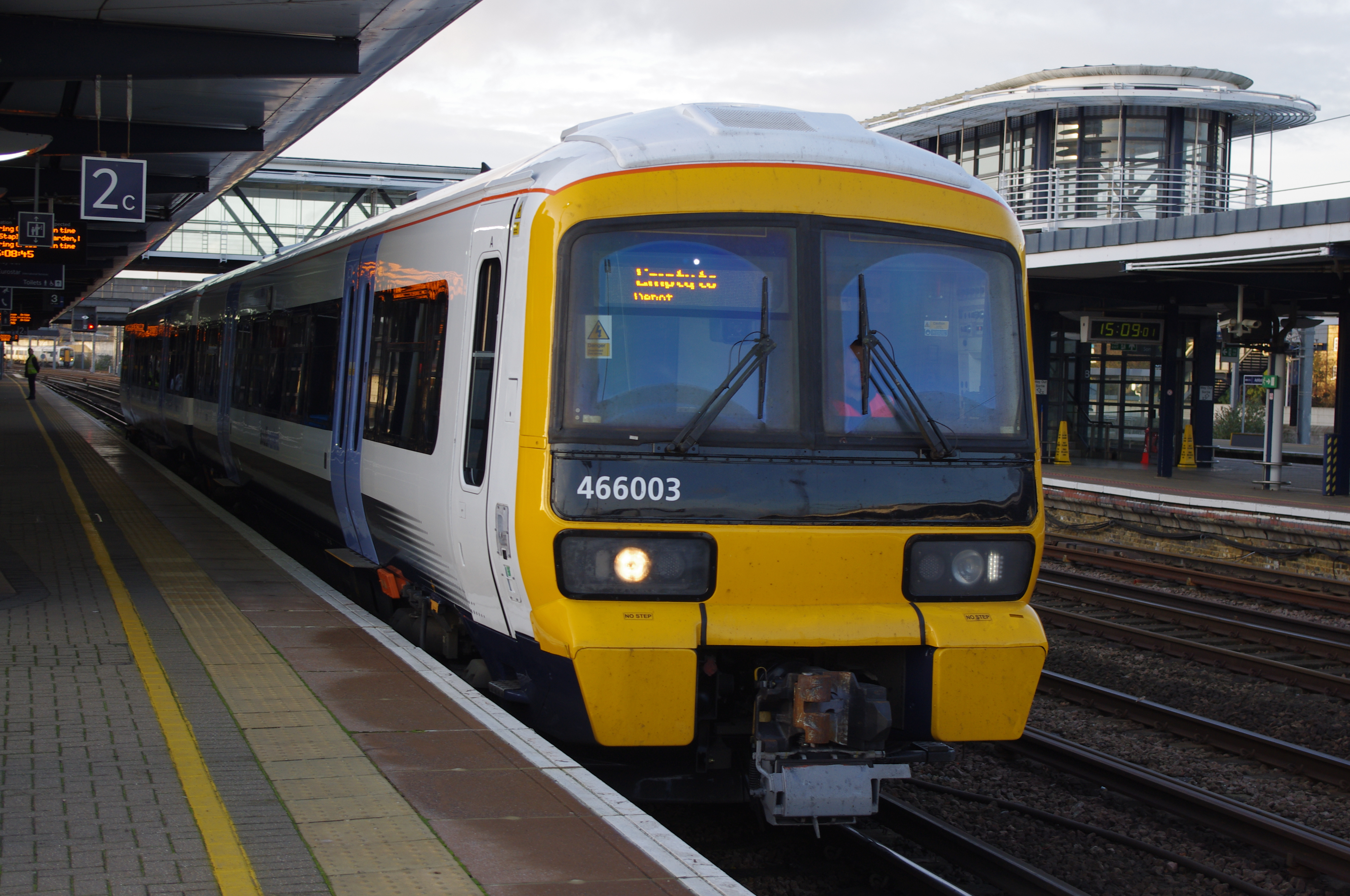 Southeastern Networker Class 466 No. 466003 pauses at platform 2c at Ashford International working 5A47 an empty stock movement from Ashford East Sidings to the Ashford Hitachi depot on Wednesday 30th November 2011.